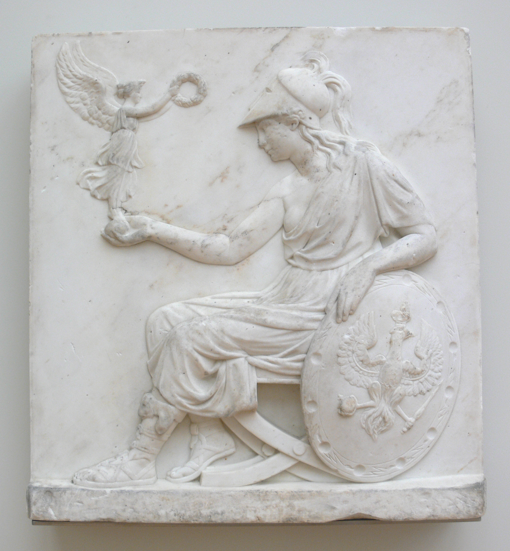 Johann Gottfried Schadow: "Borussia" (personification of Prussia), from the podestal of the monument for Leopold von Dessau at the Lustgarten park in Berlin, Berlin 1798/1800, marble. Skulpturensammlung (inv. no. 2849; assigned to the museum by emperor Wilhelm II in 1904)), Bode-Museum Berlin.